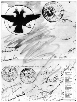 Signatures behind the document of the declaration of Northern Epirus in Argyrokastro, February 1914